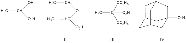 Samples of hydrotrioxides